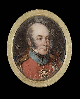 Major-General Sir James Reynett